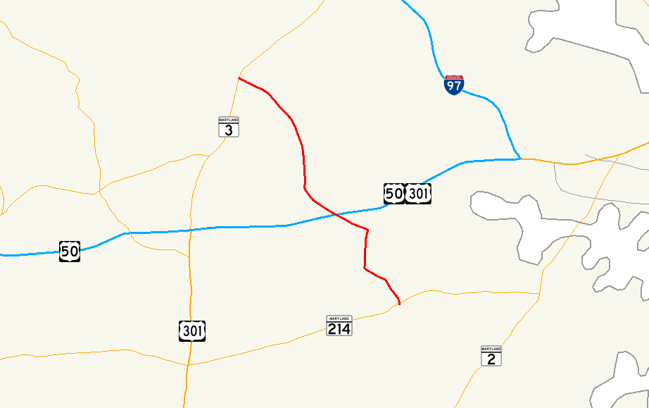 Map of Maryland Route 424